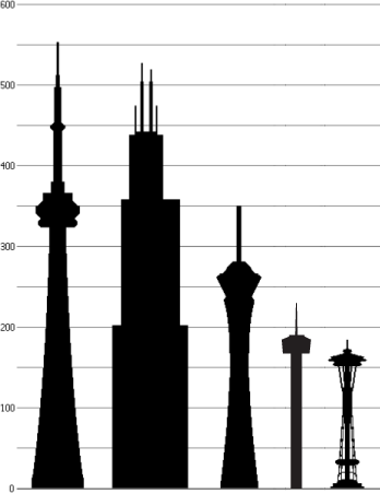 Five famous towers—CN Tower, Willis Tower, Stratosphere Las Vegas, Tower of the Americas, Space Needle—from central/western United States and Canada. Profiles used to compare size.